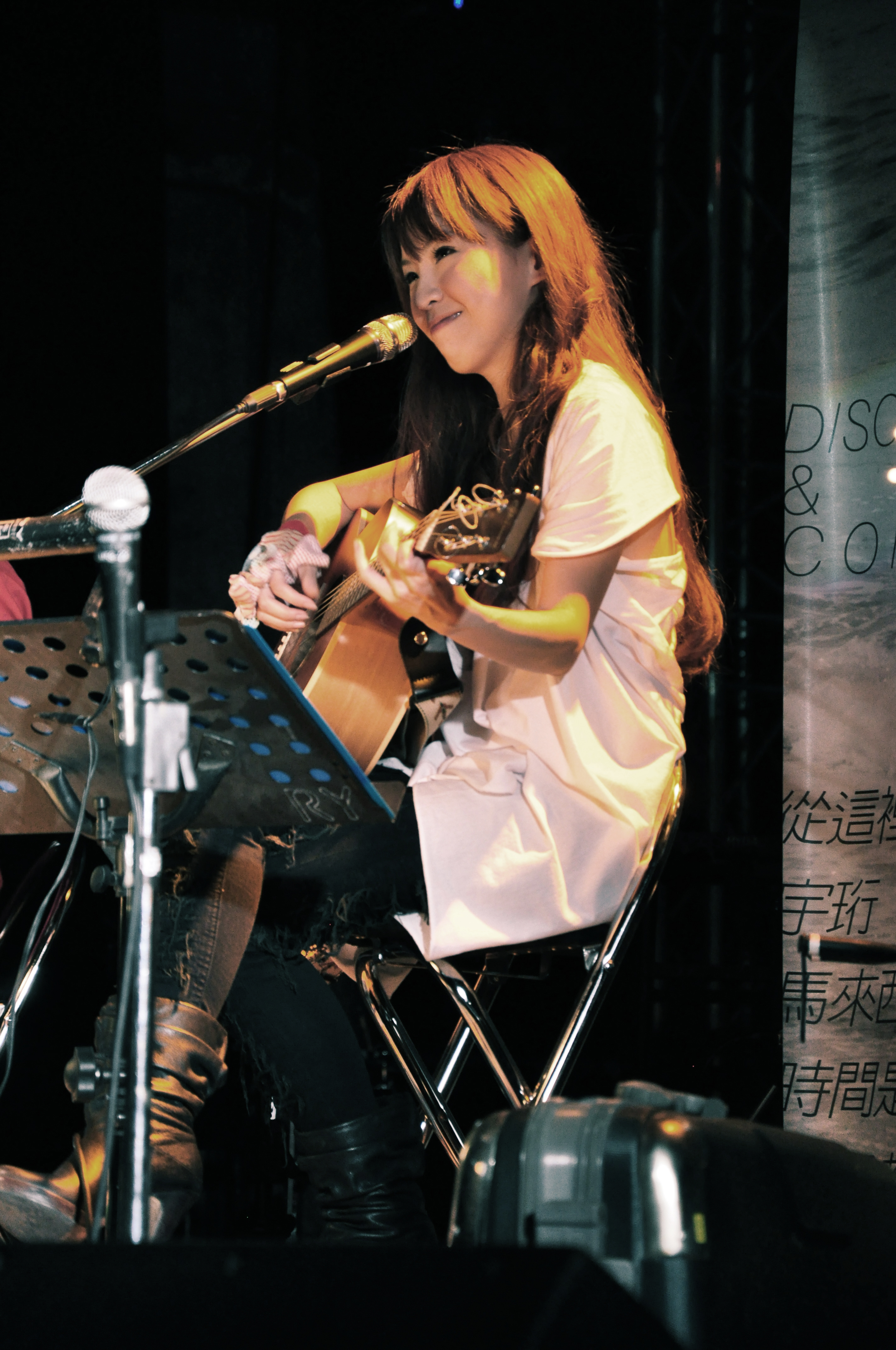 Yu Heng